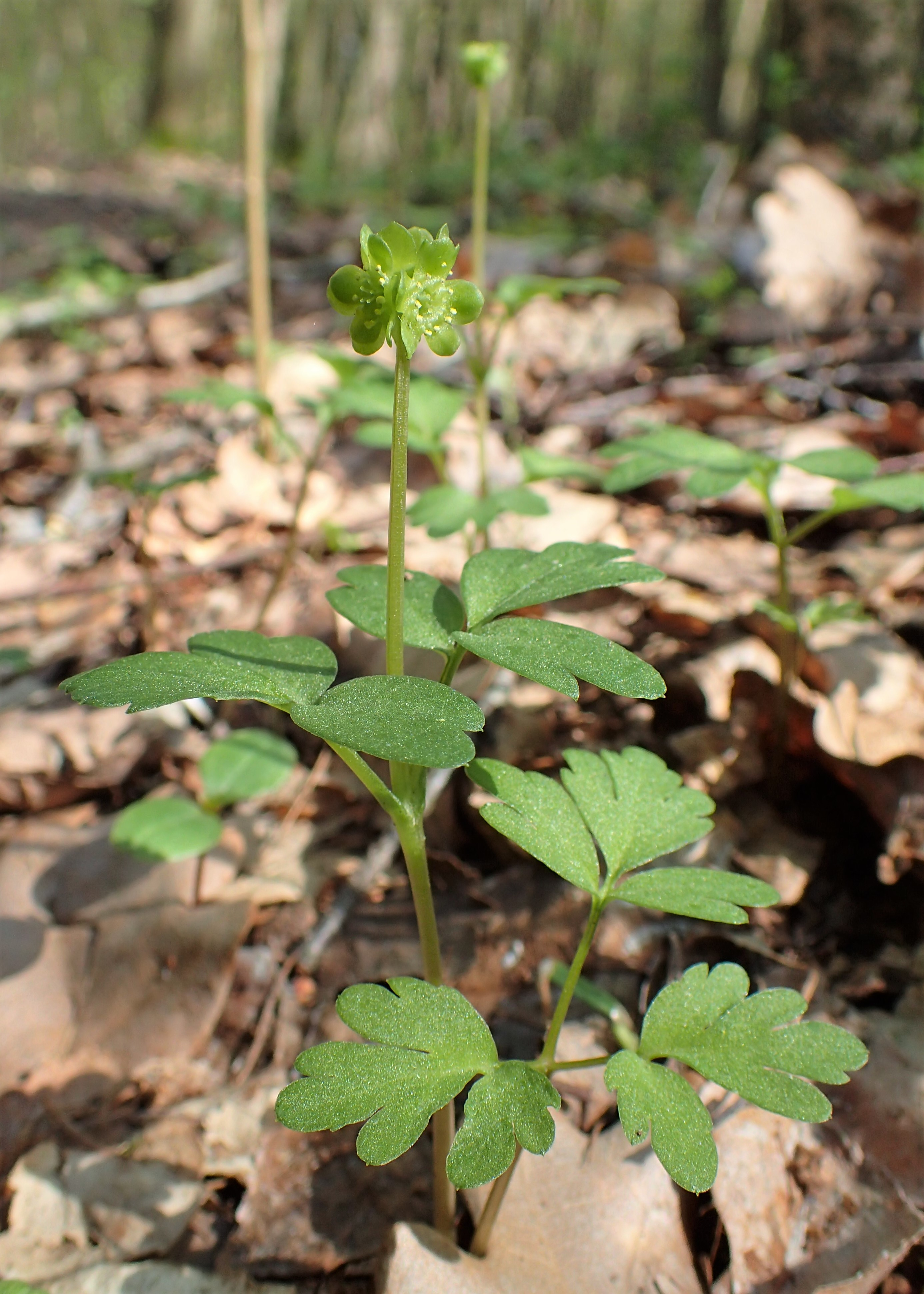 Adoxa moschatellina in PAN Botanical Garden in Warsaw